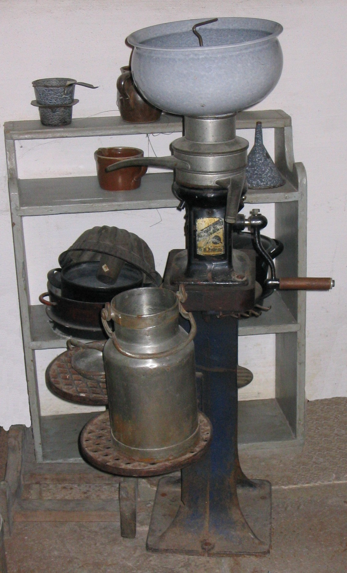 Centrifuge for milk Freilichtmuseum Neuhausen ob Eck